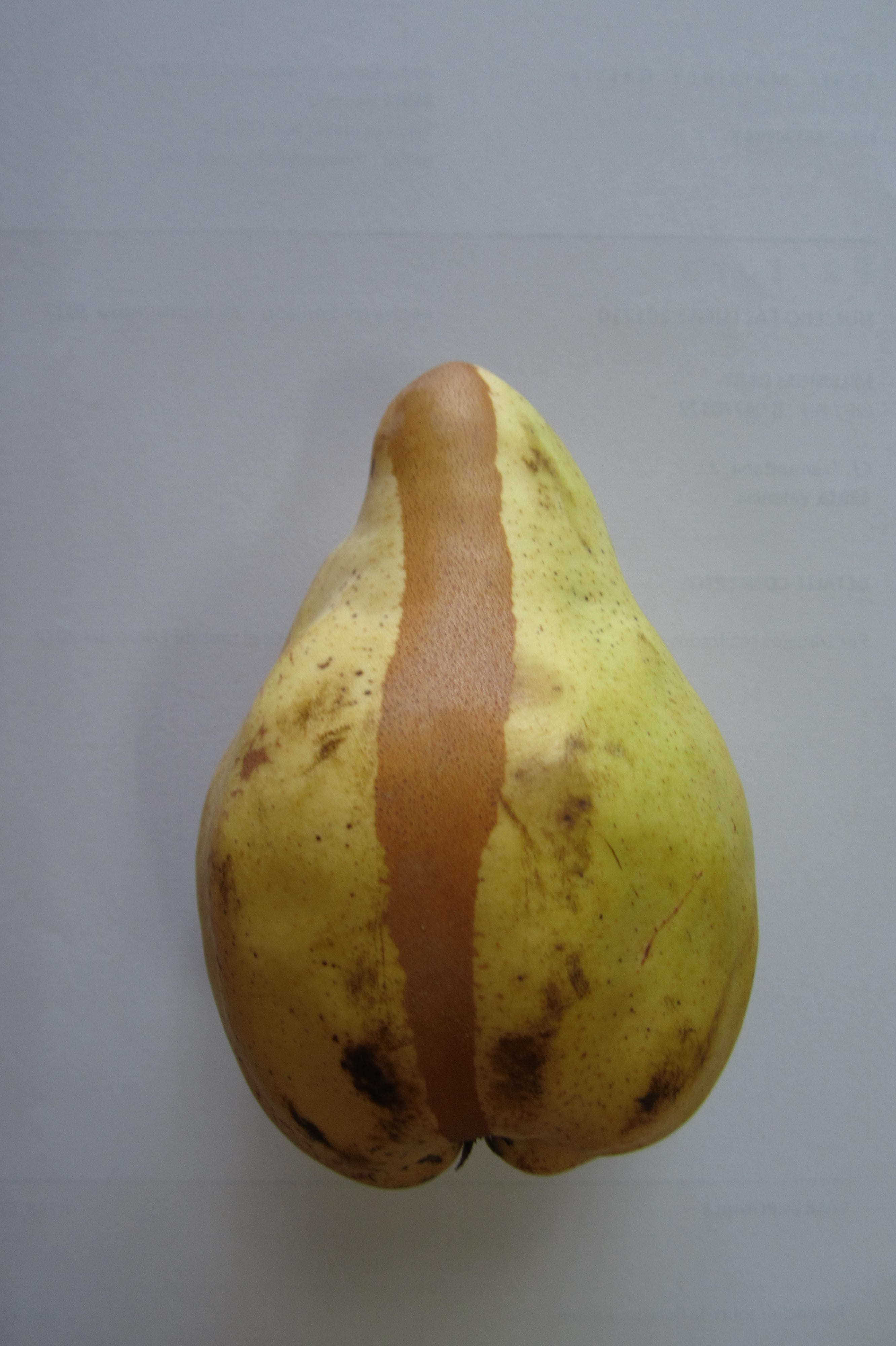 Pear fruit chimera. Mutation.